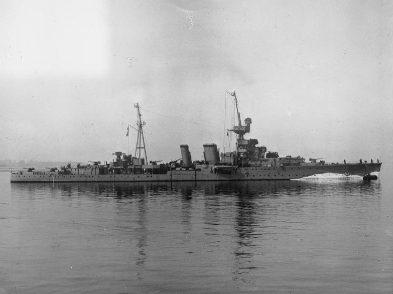 British light cruiser HMS COVENTRY underway in coastal waters.